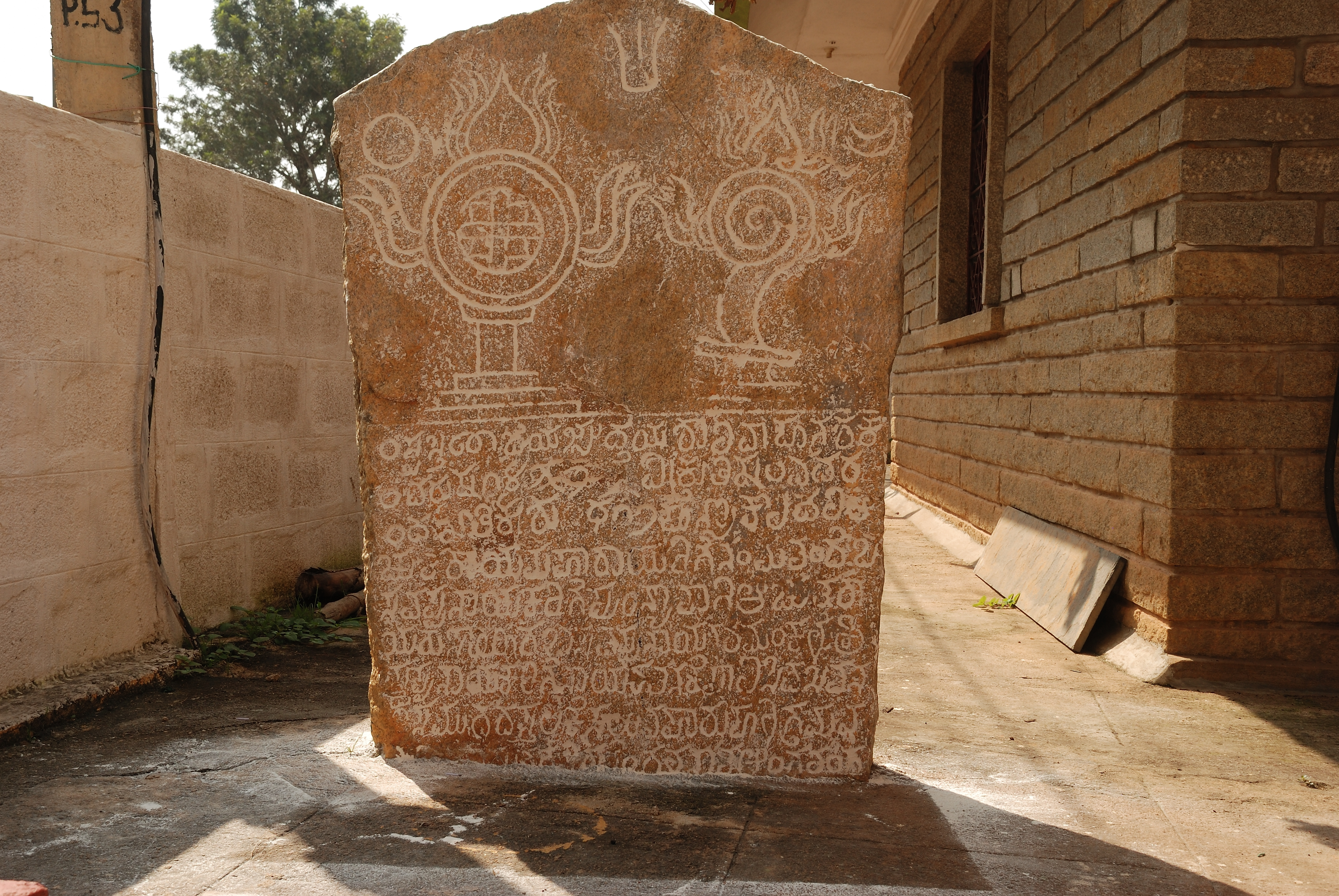 inscriptionstonesofbangalore